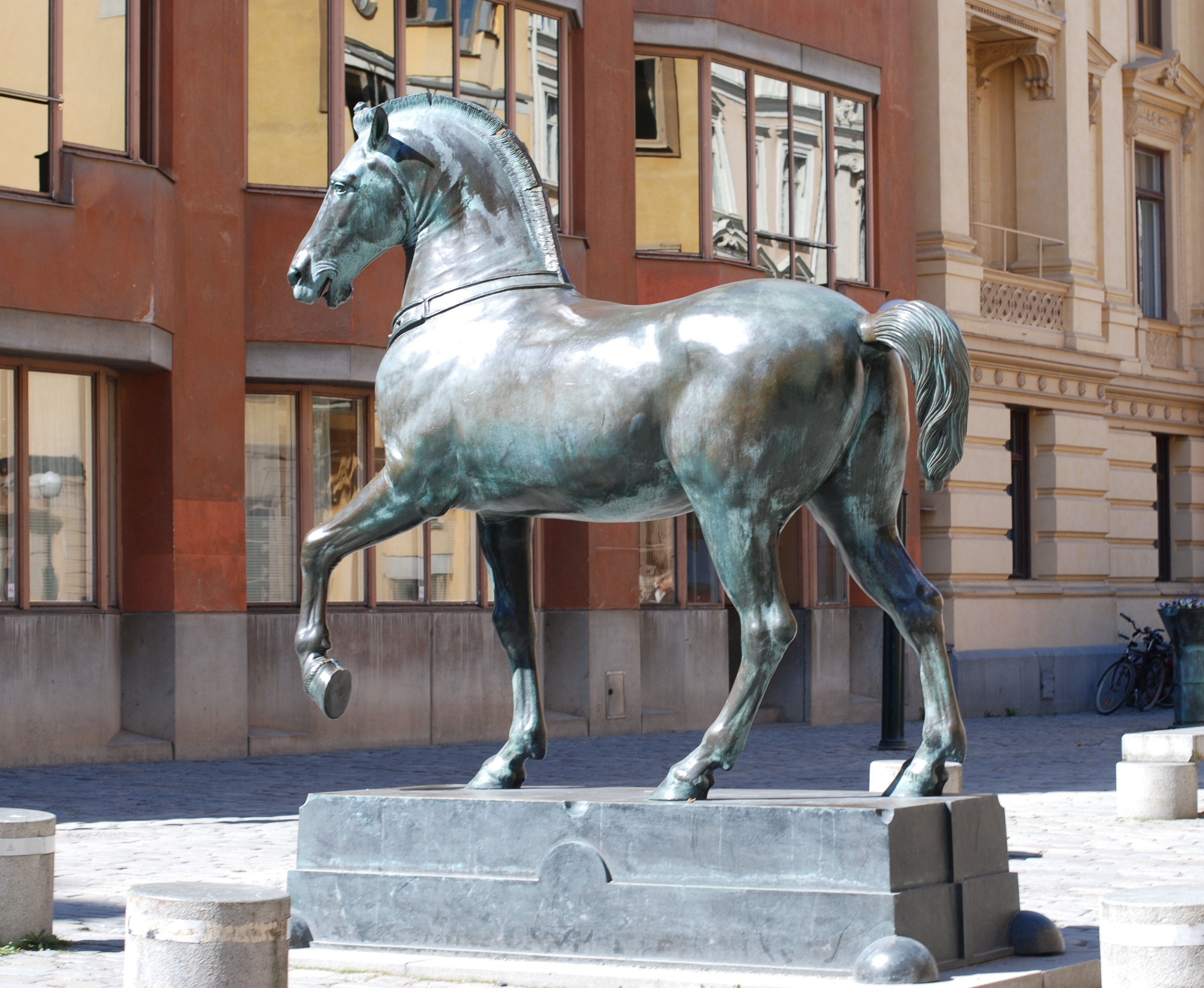 Bysantian horse sculpture, copy of one of the horses at the S:t Marcus church in Venice. Photo from Blasieholmen in Stockholm